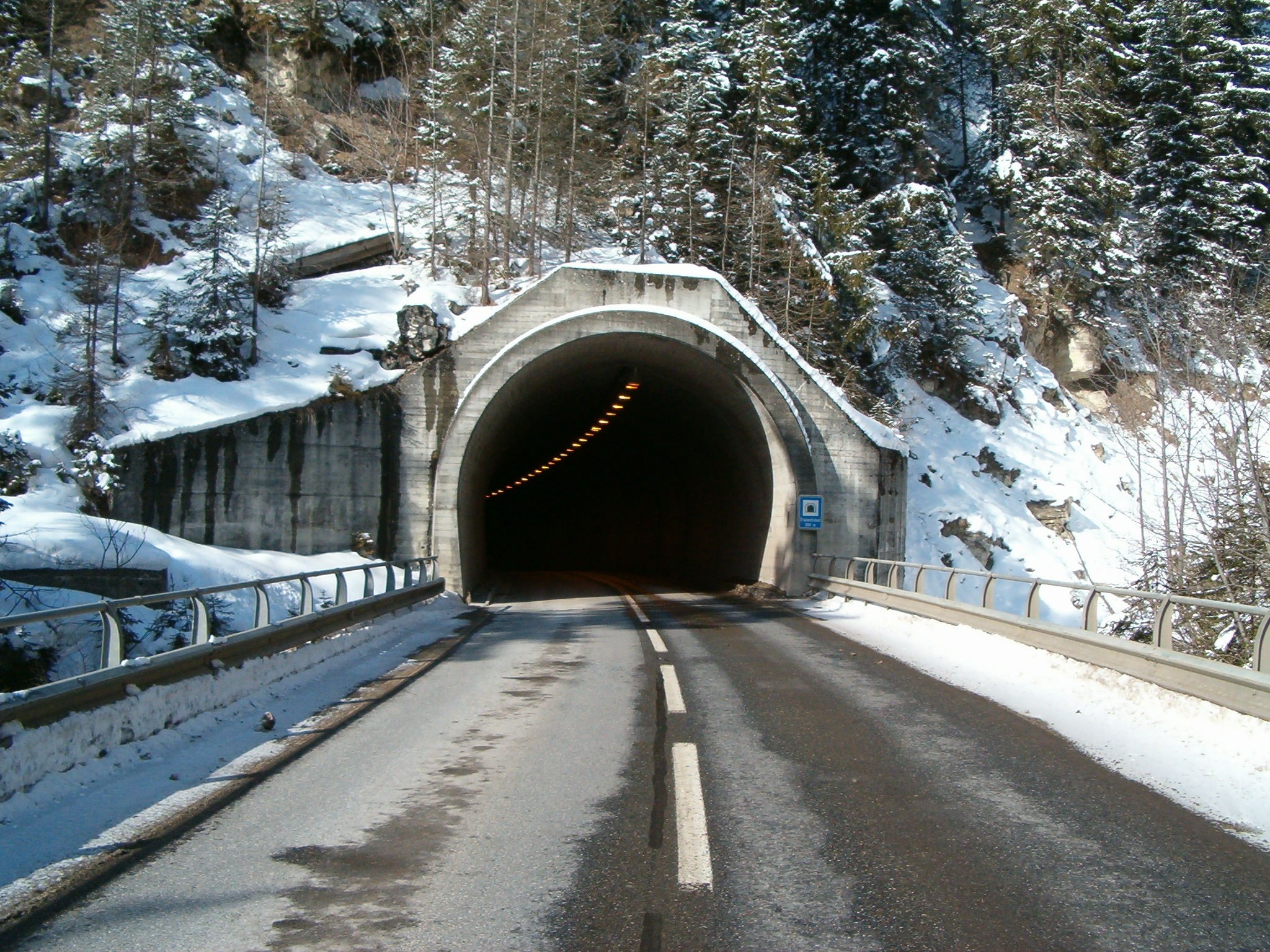 Frauentobel-Tunnel, eastern tympanum, on Schanfiggerstrasse